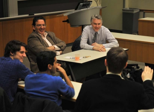 In March 2012, the University of Pennsylvania Government and Politics Association hosted Professor Frederick Dickinson, a historian of Japan, and Professor Arthur Waldron, a historian of China, to discuss the past, present, and future of Sino-Japanese relations.